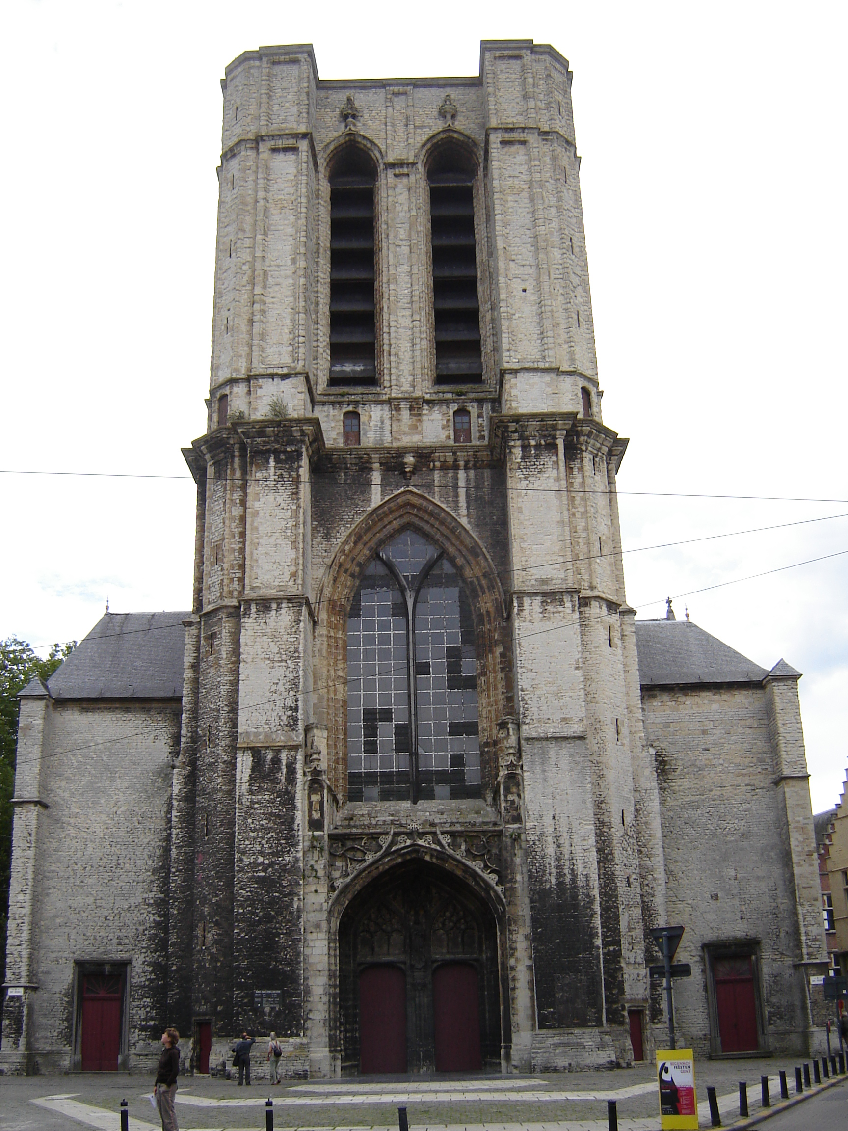 Church of Saint Michael in Gent. Gent, East Flanders, Belgium